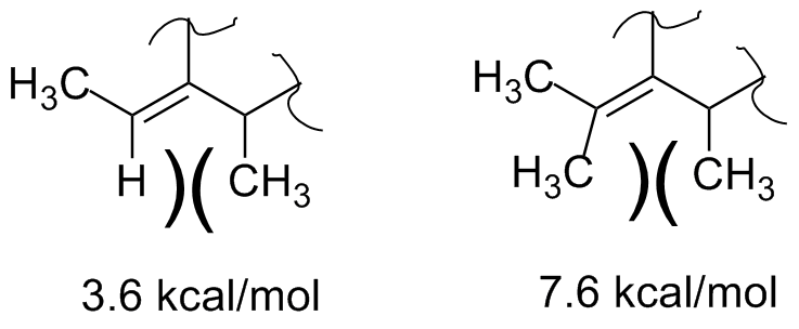 The strength of allylic strain increases as the size of the interacting substituents increases from a Hydrogen and a Methyl to two Methyl groups